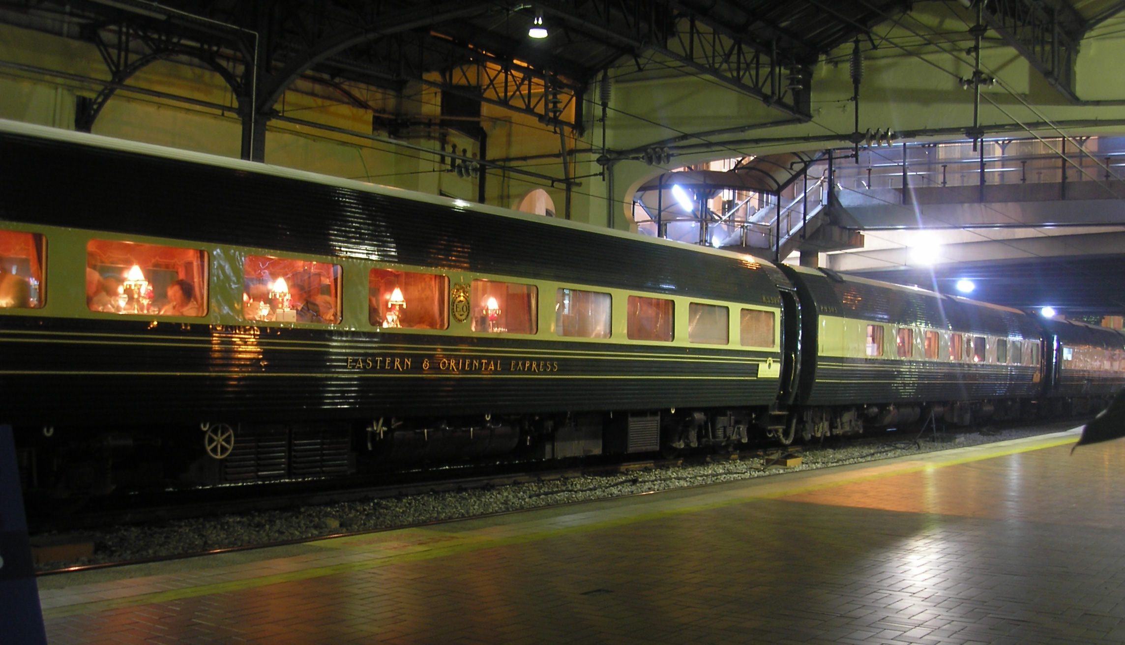 A portion of an Eastern & Oriental Express train stopping at the old Kuala Lumpur Railway Station, depicting a dining car in the foreground, and, suggestively, a sleeping car further to the background. Taking a picture of the train's distinctive observation car was impossible as it was far out the platform of the station.